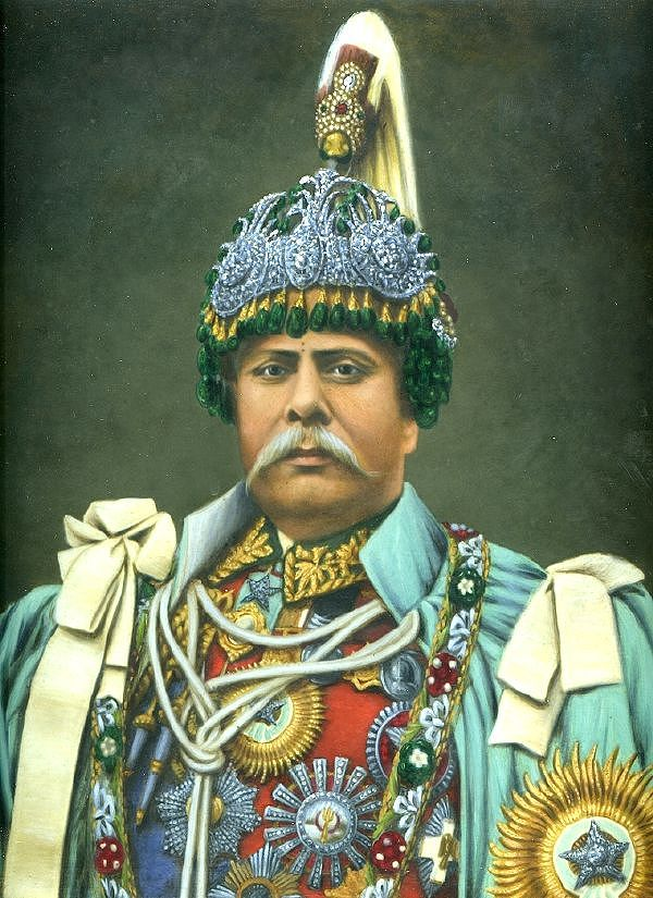 Padma Shamsher JBR (1882-1961); PM of Nepal and Maharaja of Kaski and Lamjung between 1945 and 1948 and portrait commissioned in his reign.